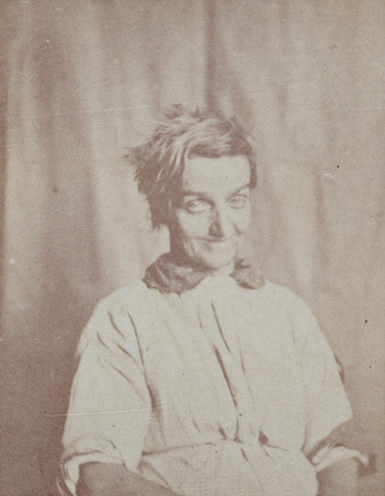 Creator: Dr. Hugh Welch Diamond (1808 - 1886)Date: c. 1855Format: Photograph; salt print from calotype negativeMaterial: PaperCollection: The Royal Photographic Society Collection at the National Media MuseumInventory no: 2003-5001/2/20185Blog post: D is for Dr. Hugh Welch Diamond… Photography and the pseudoscience of physiognomy, National Media Museum In May 1856 Dr. Hugh Welch Diamond, a physician at the Surrey County Asylum and Secretary to the Photographic Society of London, presented a paper to the Society called On the Application of Photography to the Physiognomy and Mental Phenomena of Insanity.Diamond stated that photography was invaluable in the treatment of mental illness. He proposed that by studying the faces of patients, physicians could identify and diagnose mental complaints. These beliefs were rooted in the pseudoscience of physiognomy, where the face was seen as the mirror of the soul. For Diamond, the faces of the patients represented "types" of mental illness such as melancholia and delusional paranoia. "...the Photographer catches in a moment the permanent cloud, or the passing storm or sunshine of the soul and thus enables the Metaphysician to witness and trace out the visible and the invisible in one important branch of his researches into the Philosophy of the human mind..." Dr. H. W. Diamond, On the Application of Photography to the Physiognomy and Mental Phenomena of Insanity, The Photographic Journal, July, 1856.